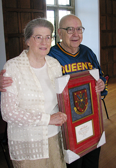 Dr. Alfred Robert Bader (* 28. April 1924 in Wien) and his wife Dr. Isabel Bader